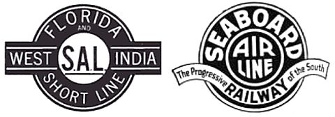 Two logos used in advertising by the Seaboard Air Line Railroad in the early 20th century, circa 1900 and 1916, respectively.